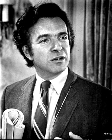 Photo of Arthur Hiller directing Love Story. Front and back of photo is displayed with no copyright notice.